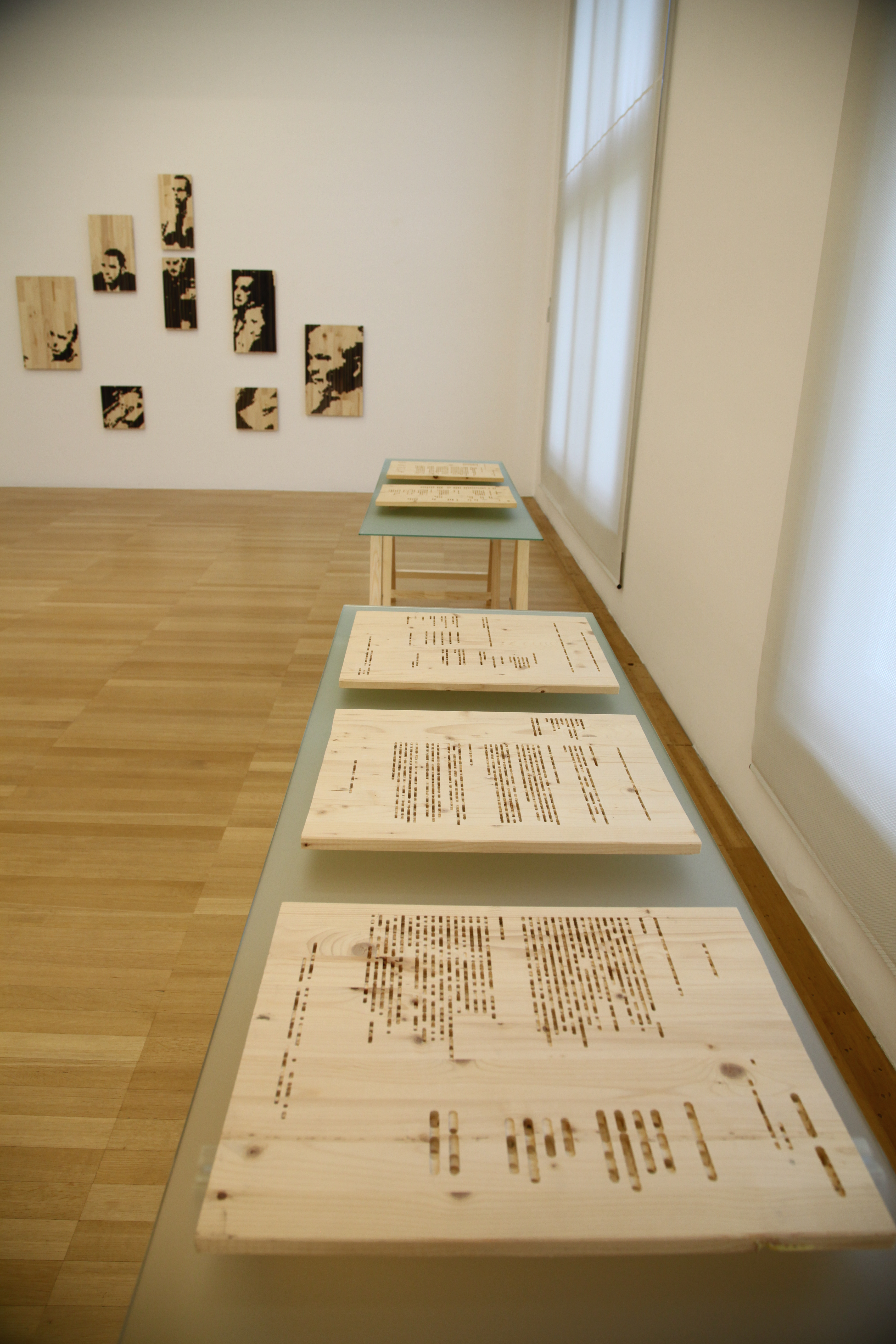 Teo Spiller Wooden In/Form/ation objects with robot painting "President Obama following Execution of Osama bin Laden" behind, both made by his LaLaboro self-made robot to investigate Cyborg-Artist Concept